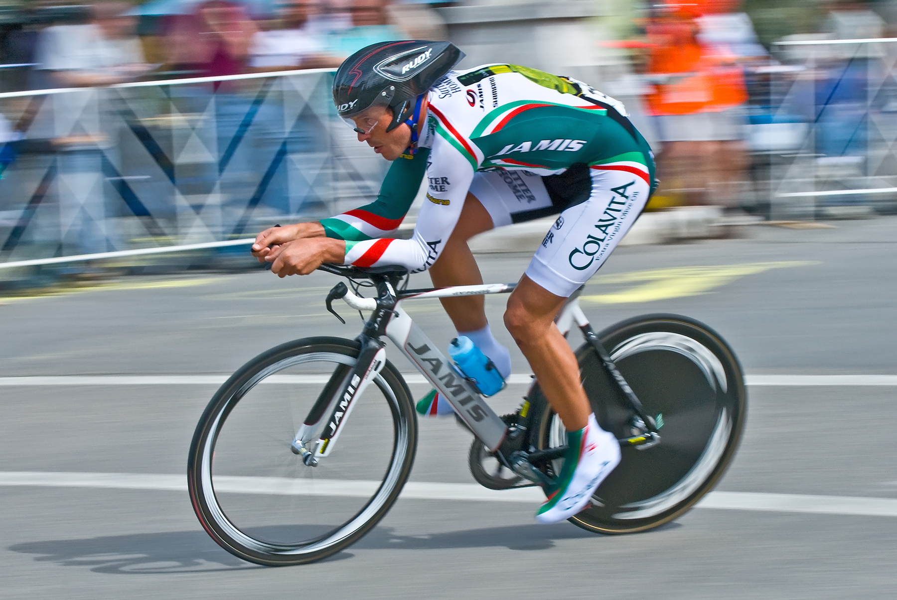 Aaron Olsen -2009 Tour of California. As seen on course in Los Olivos during the stage 6 time trials starting in Solvang.